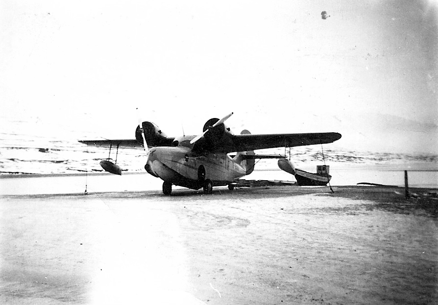 A Grumman G-21 Goose in Akureyri Iceland in about 1950. This type of plane was used by both Icelandic airlines operating at the time.